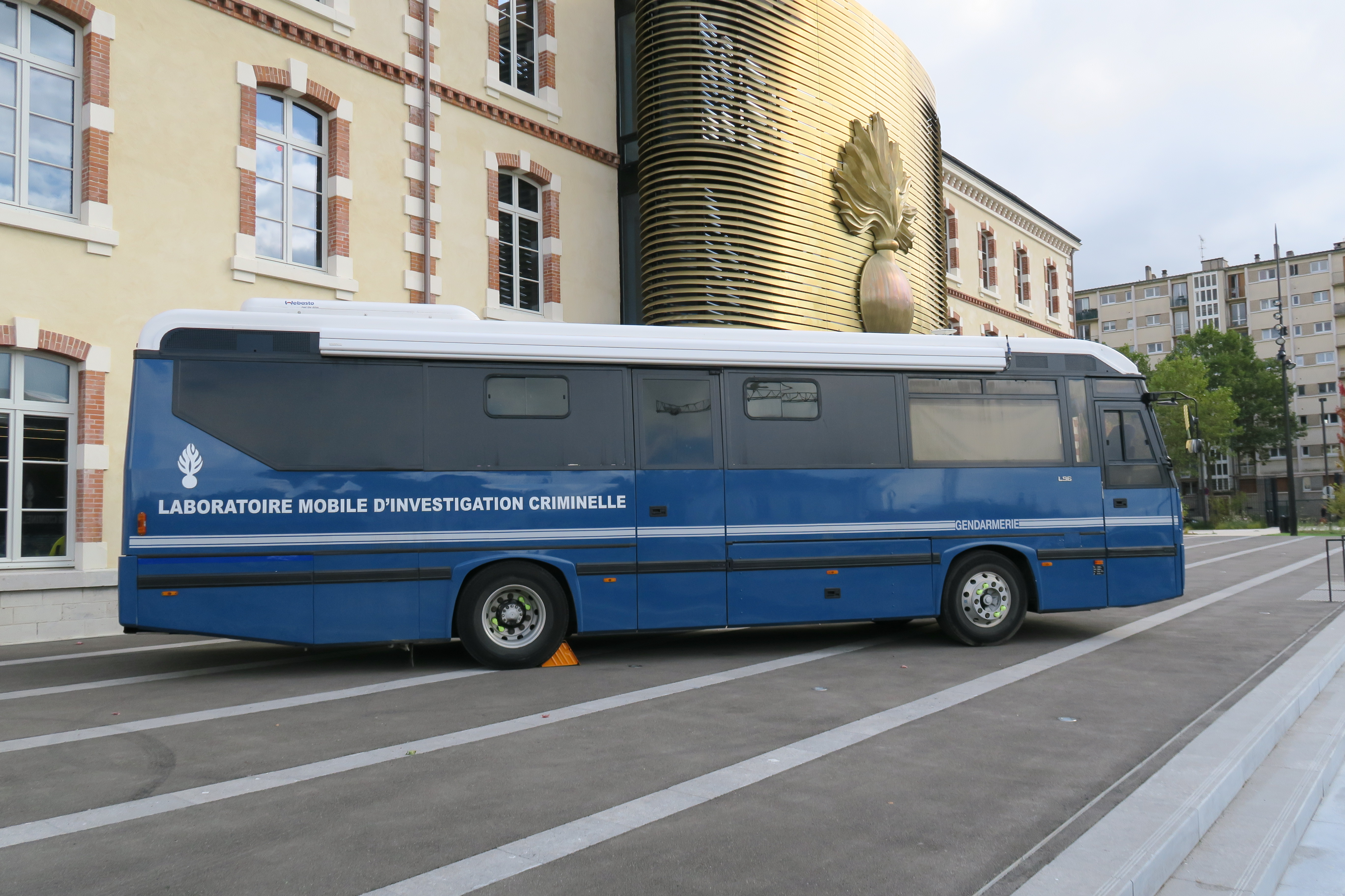 French Gendarmerie nationale mobile criminal investigations lab in front of the Gendarmerie museum.